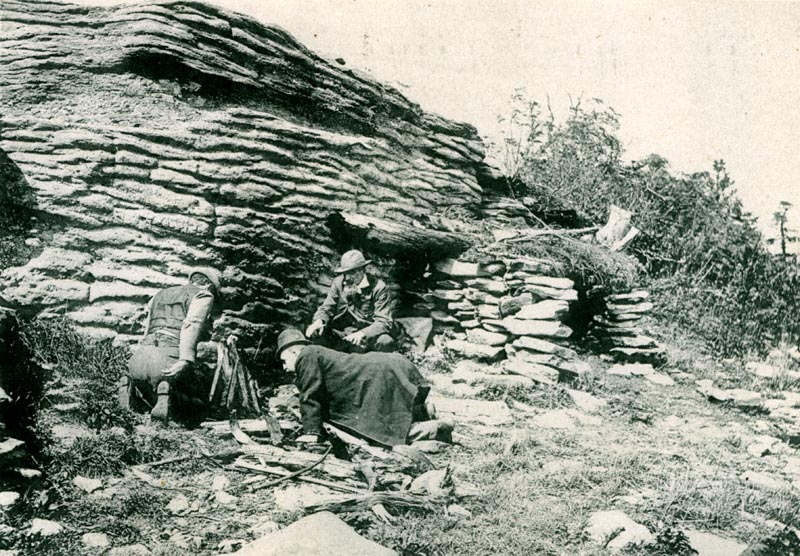 Camping at the summit rock, note the small stone shelter, photo by S.R. Stoddard, about 1900 - Image courtesy of